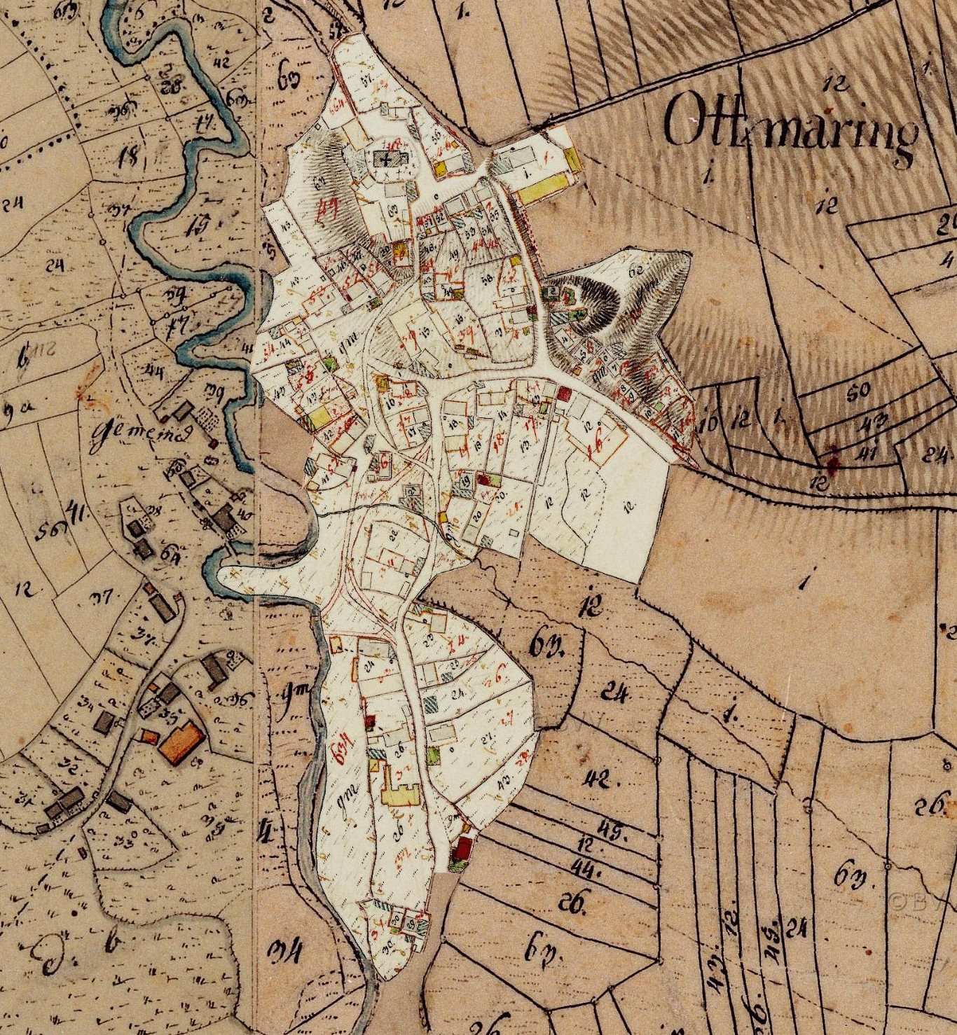 The village Ottmaring in the 19th century